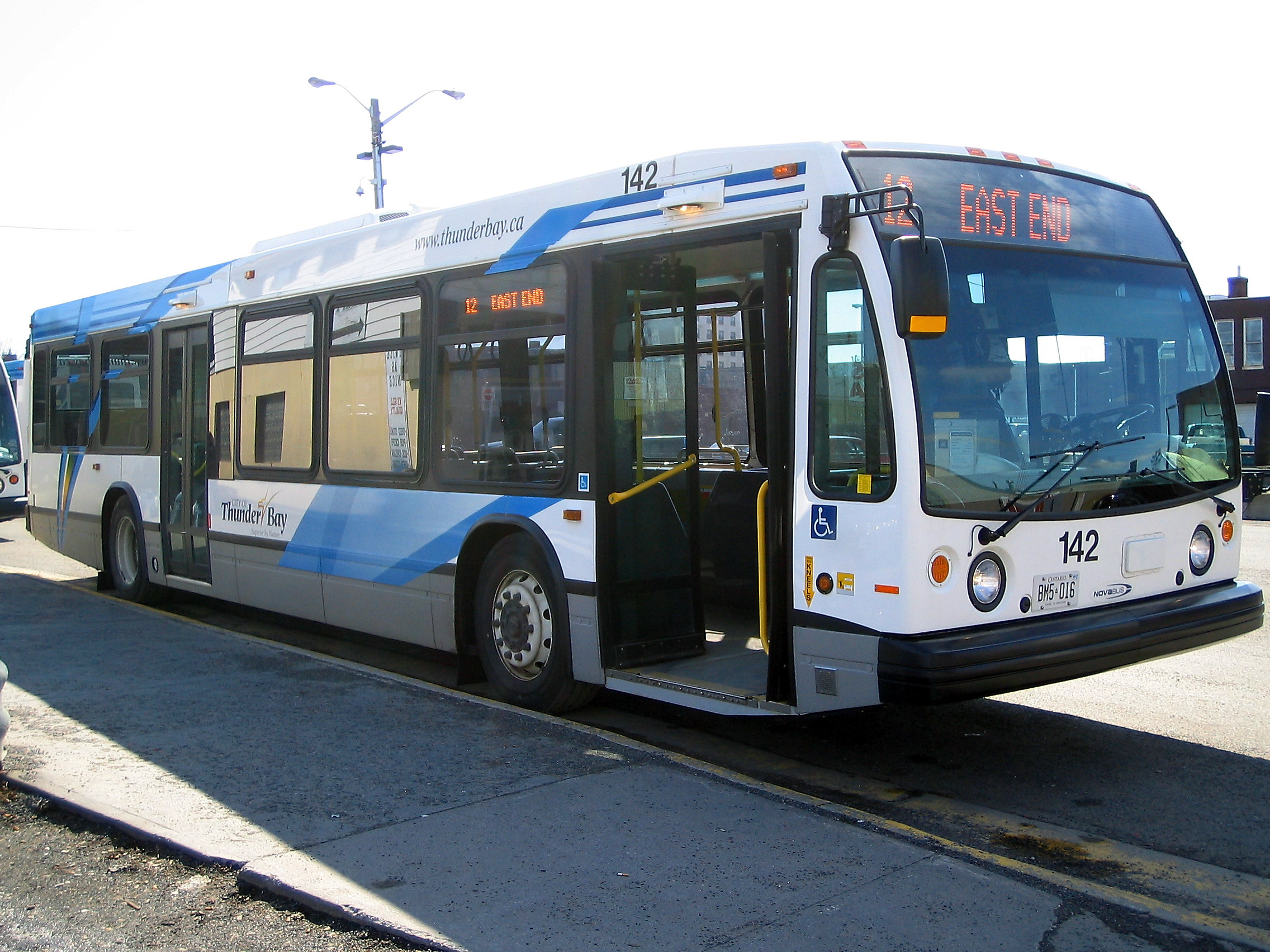 Thunder Bay Transit NovaBus LFS #142 at Brodie St Terminal.